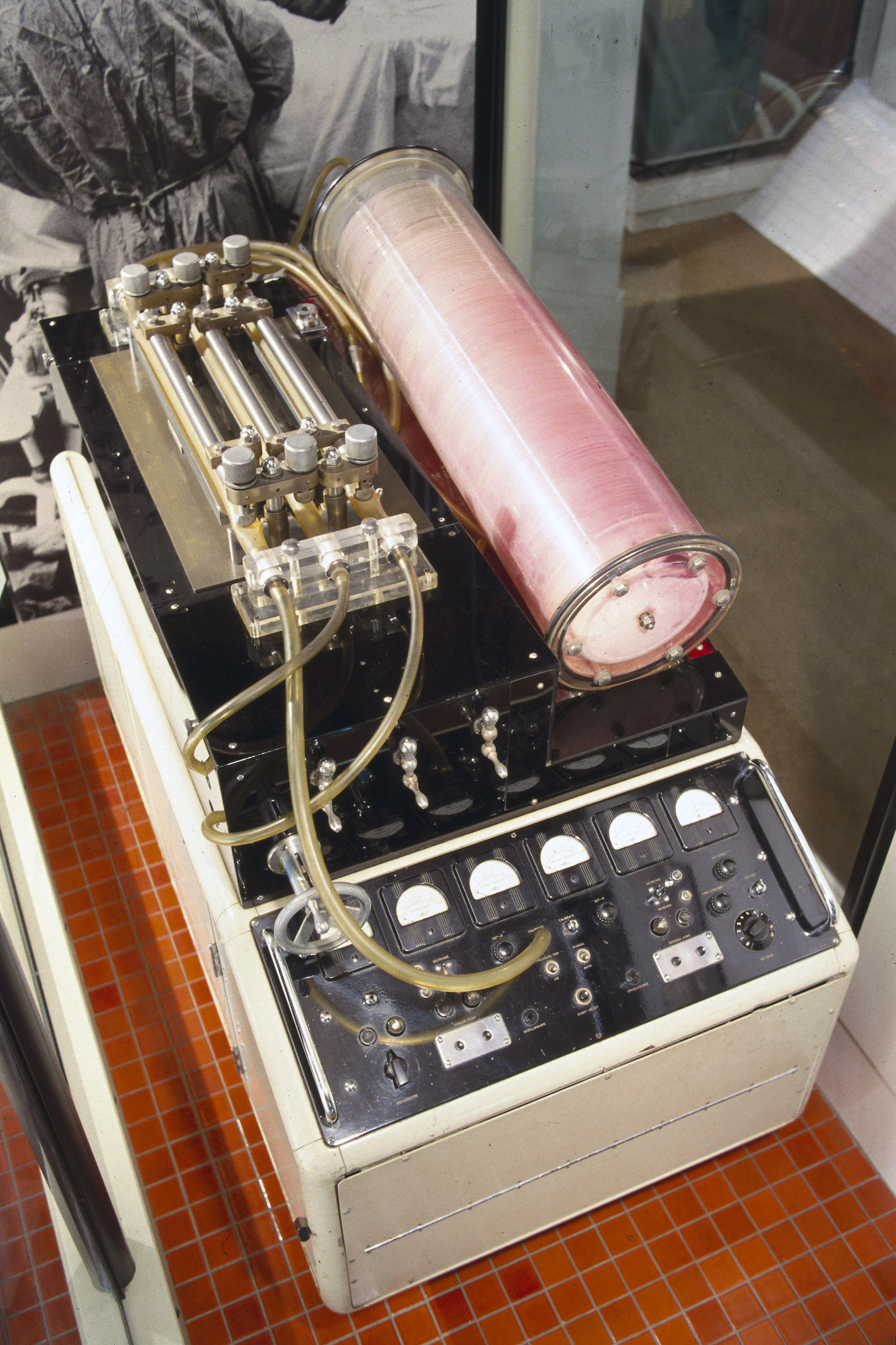 The heart-lung machine performs the functions of the heart and lungs during surgery. A pump takes over the action of the heart, supplying the body with blood. The heart can then be stopped, making it easier to operate on. The patient’s blood flows over the rotating discs where oxygen is blown across it, effectively taking over the action of the lungs. This machine with a pump oxygenator was conceived by Denis Melrose (1921-2007) at the Postgraduate Medical School in Hammersmith, London, in the early 1950s. Melrose also developed a way to stop the heart beating during heart surgery using potassium citrate. The technique is still used today and is called cold cardioplegia. This machine was the first to be used in open heart surgery operations at the Postgraduate Medical School. maker: New Electronic Products Place made: London, Greater London, England, United Kingdom Medical Photographic Library Keywords: Heart-Lung Machine; open heart surgery